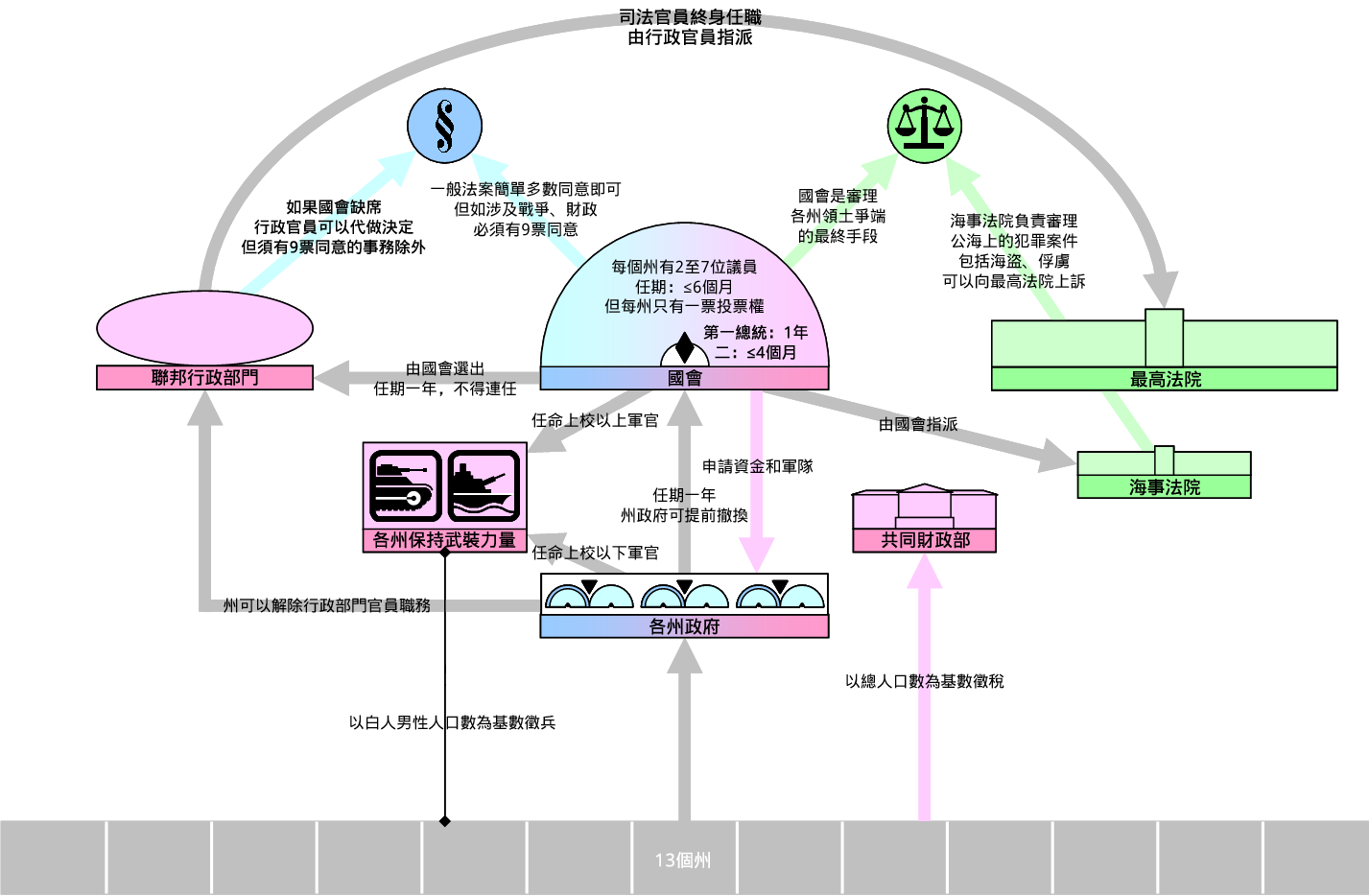 A diagram of the New Jersey Plan presented at the Constitutional Convention in the United States in 1787.